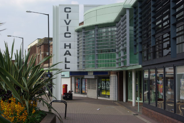 Civic Hall, Bedworth Dominating High Street,the Civic Hall is a multi-purpose entertainment venue incorporating a 763-seat auditorium - an impressive facility for a small town. It was originally opened in 1973. More details are available at .